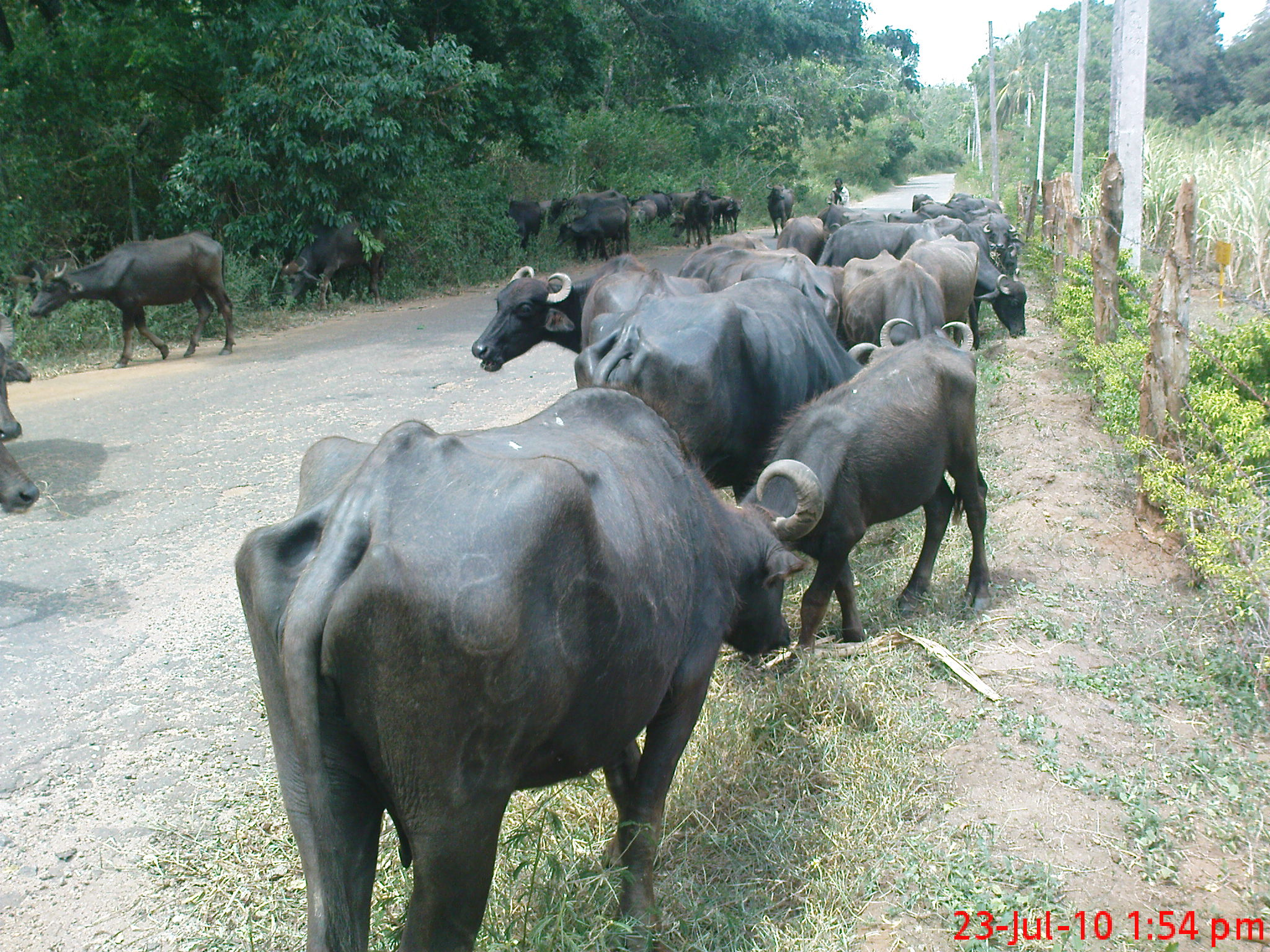 Extensively rearing water buffalo herd in Sevanagala area, Sri Lanka.